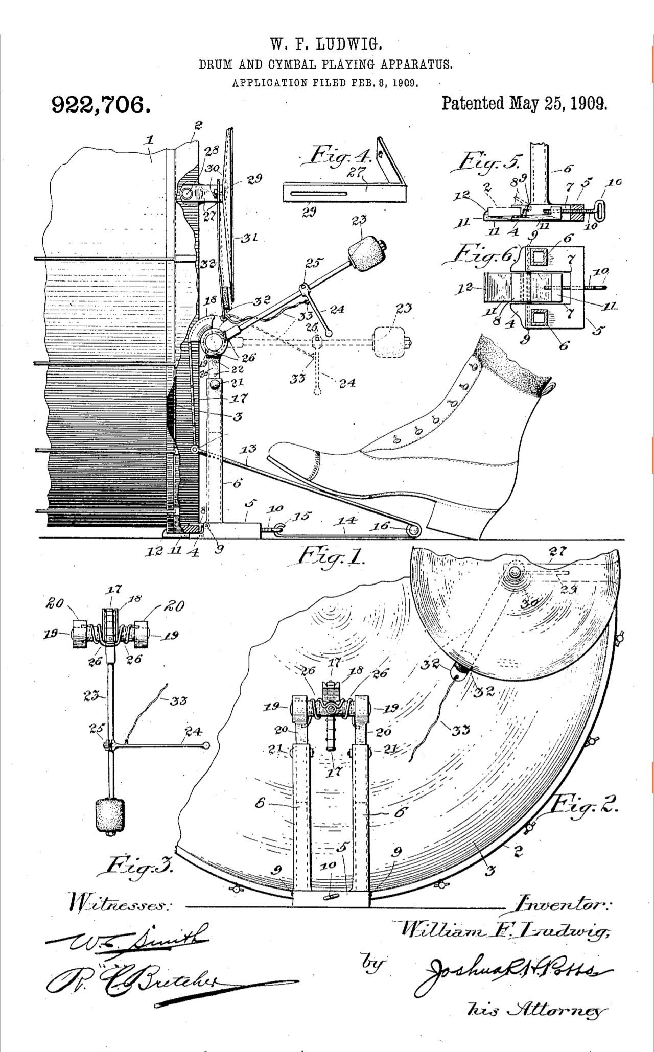 Drawing of the first William F. Ludwig pedal patent: Drum and cymbal playing apparatus.